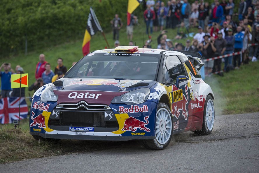 Rally Germany 2012 ADAC Rallye Deutschland,Citroen DS3 WRC,Citroen Junior WRT,Citroen Junior World Rally Team,Motorsport,Nicolas Gilsoul,Rally,Rallye,Rallye Deutschland,SS7,Stein & Wein 1,Thierry Neuville,WP7,WRC